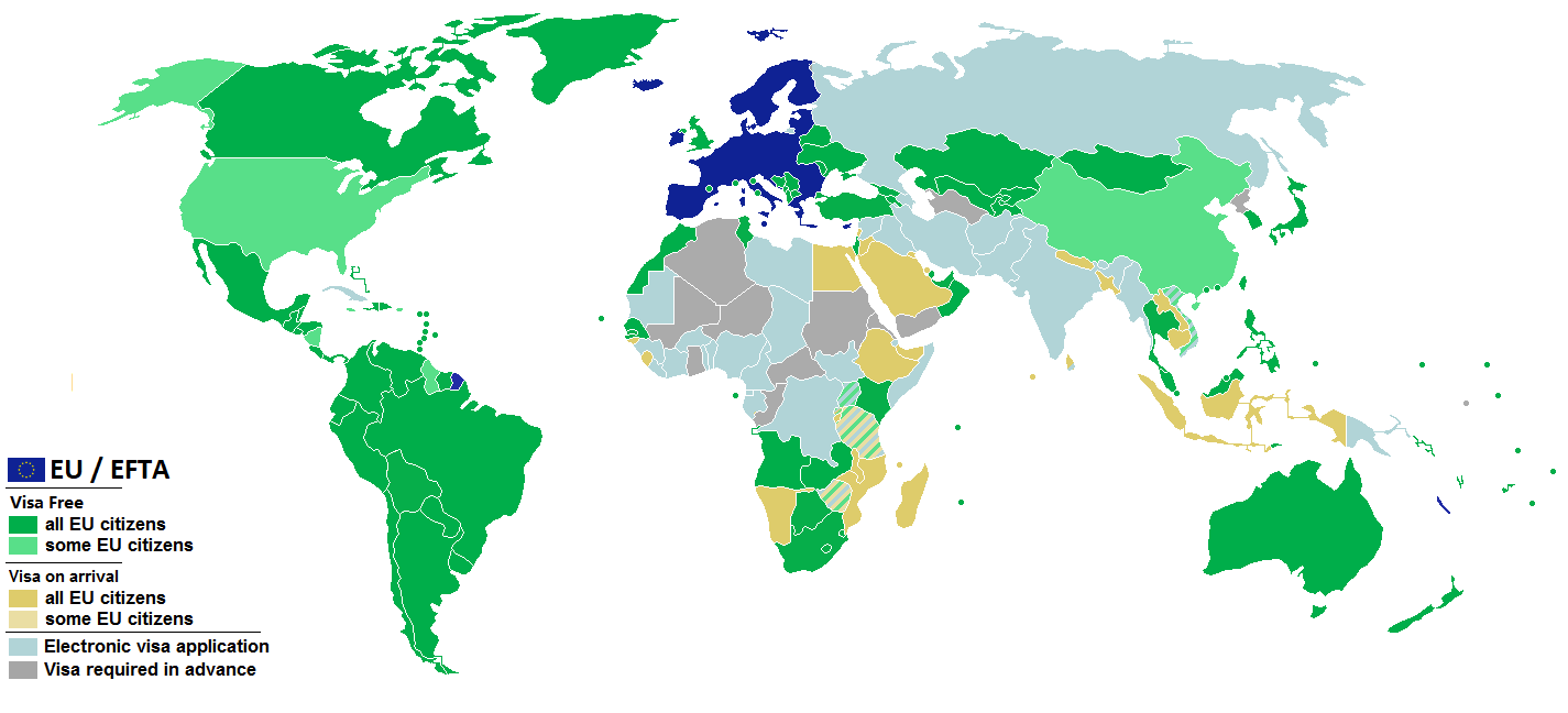 Visa requirements for the European Union citizens European Union (EU) and European Free Trade Association (EFTA) Visa free access for all EU citizens Visa free access for some (1-27) EU citizens Visa on arrival for all EU citizens Visa on arrival for some (1-27) EU citizens Electronic visa application